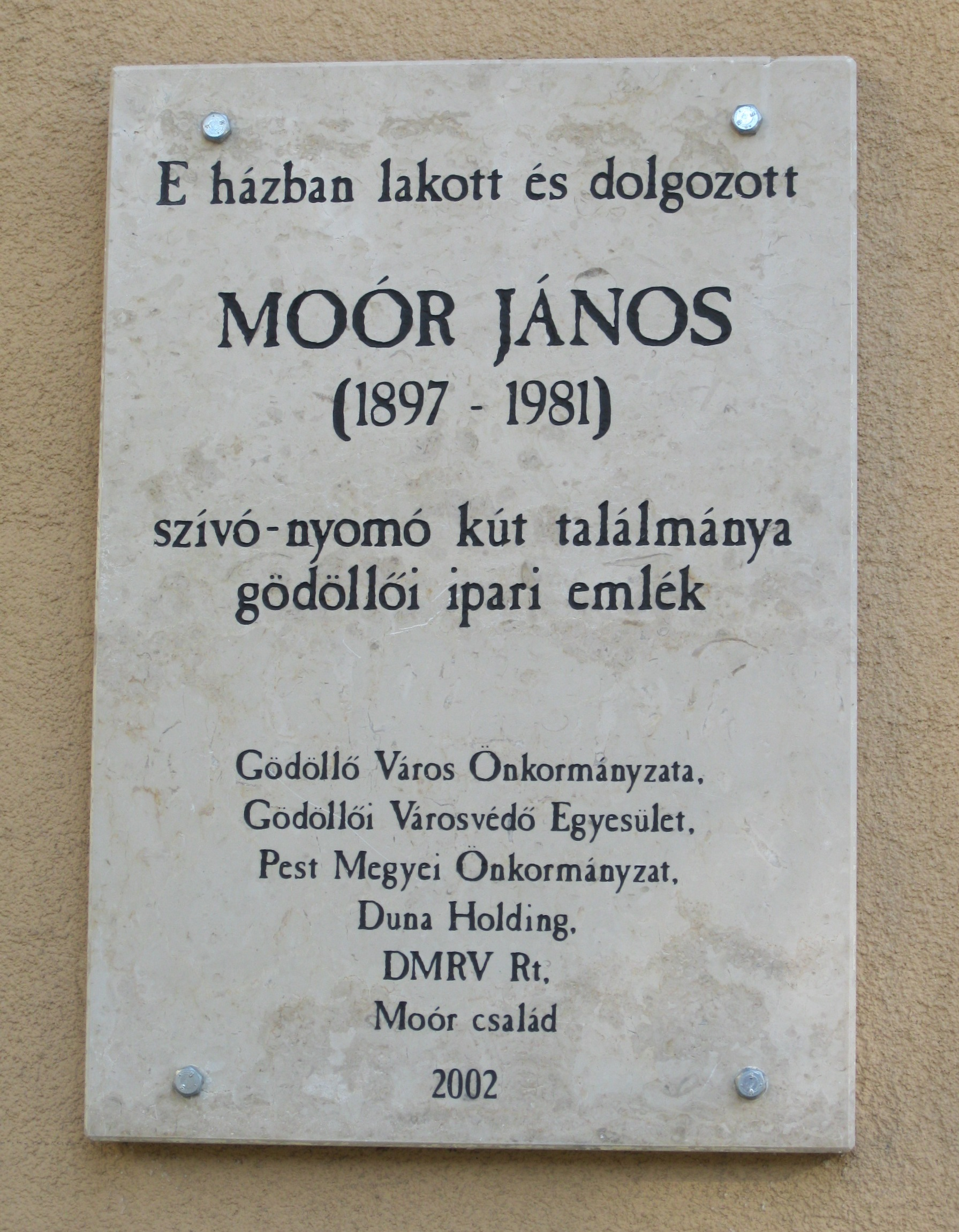 Commemorative plaque of János Moór in Gödöllő, Kossuth Lajos Street No 1